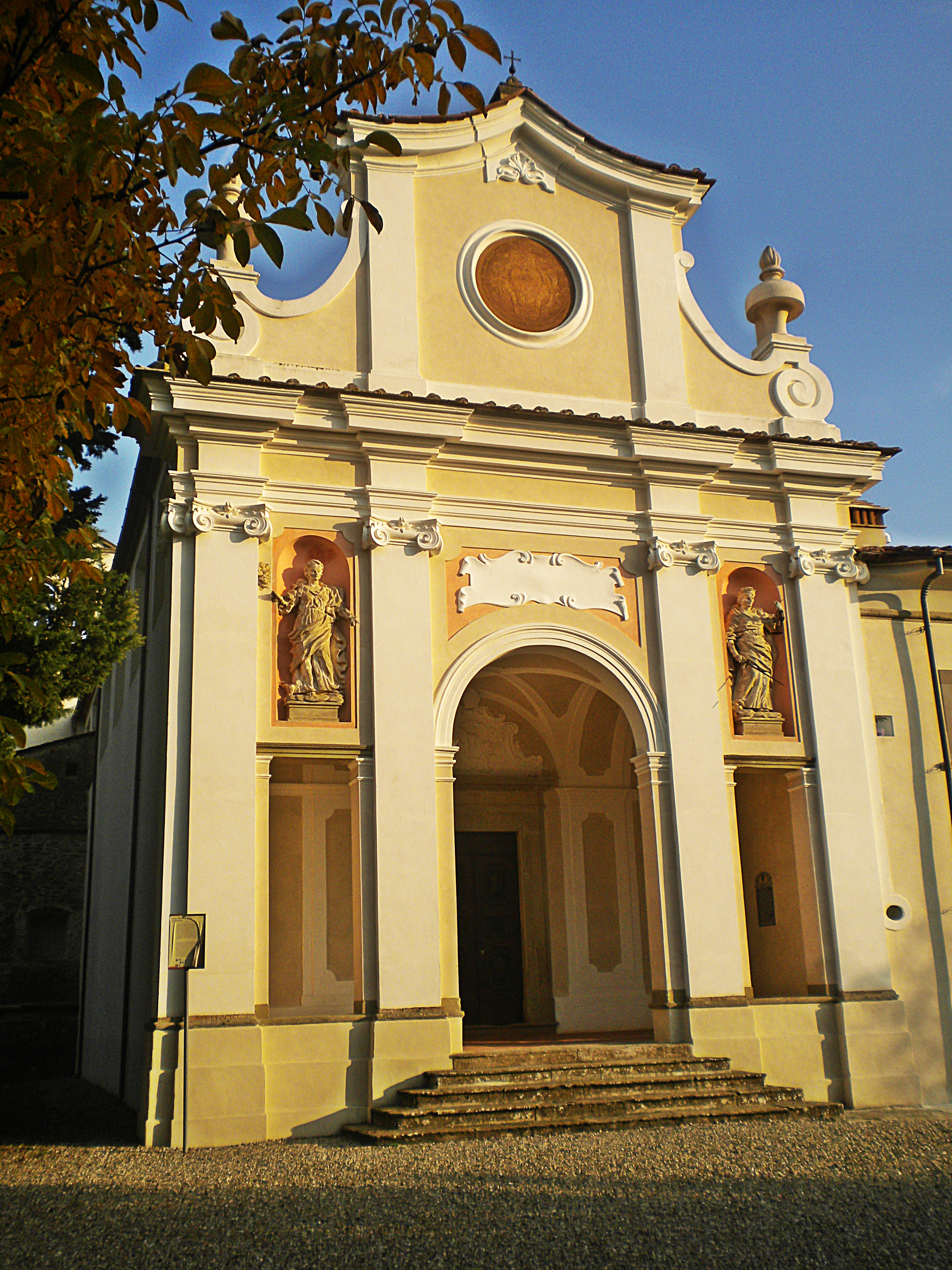 facade